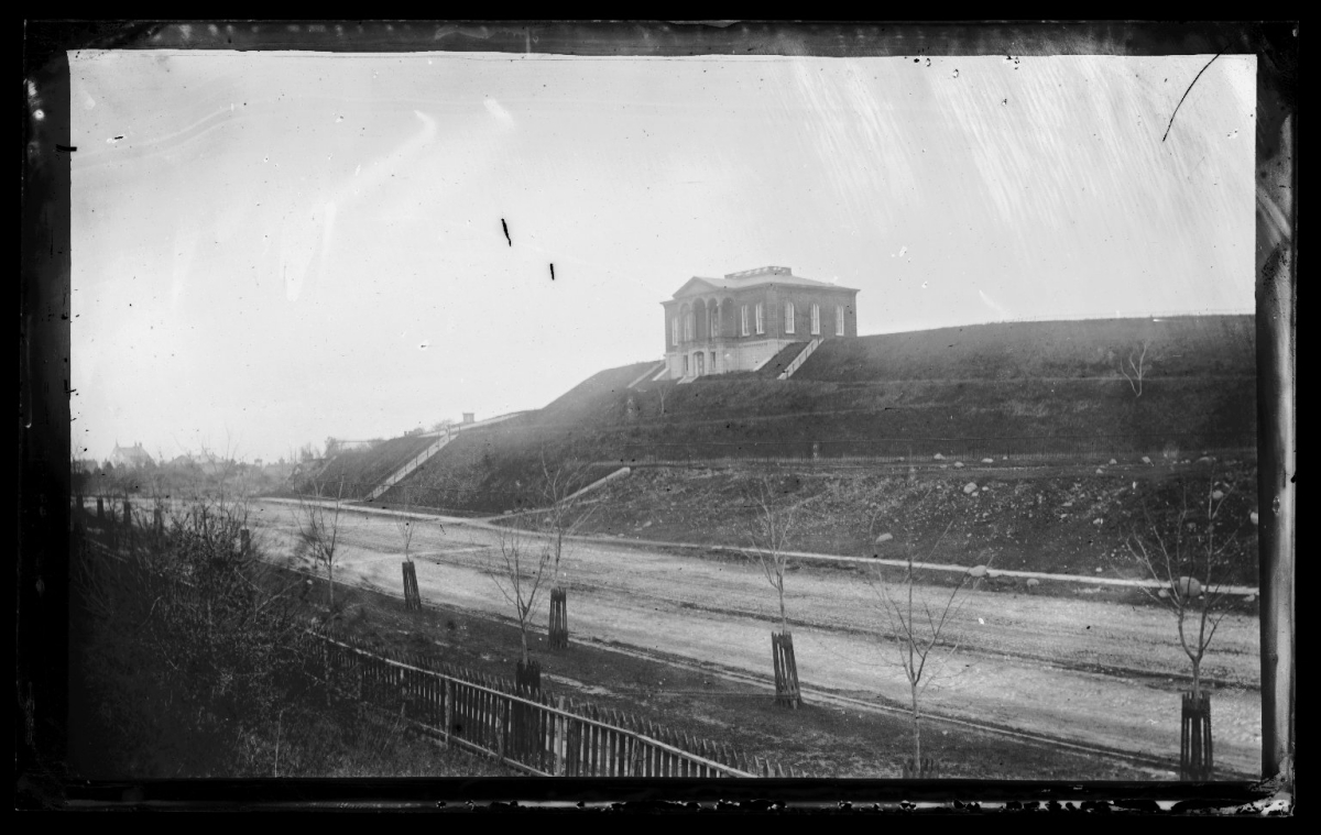 George Bradford Brainerd (American, 1845-1887). Reservoir, Prospect Hill, Brooklyn, ca. 1872-1887. Wet-collodion negative. Prints, Drawings and Photographs. Brooklyn Museum/Brooklyn Public Library, Brooklyn Collection, 1996.164.2-268. (1996.164.2-268_glass_IMLS_SL2.jpg) Thank you, TVL1970! This image has been geotagged by TVL1970 so Brooklyn could be part of the Historypin launch on July 11, 2011. Want to help? See if you can place any of these images on a map! More about #mapBK